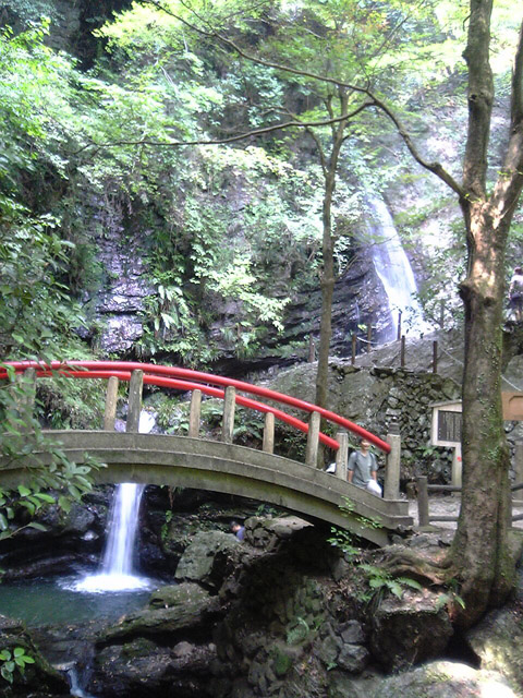 Kuroyama Three Waterfalls in Ogose Town, Saitama Prefecture, Japan